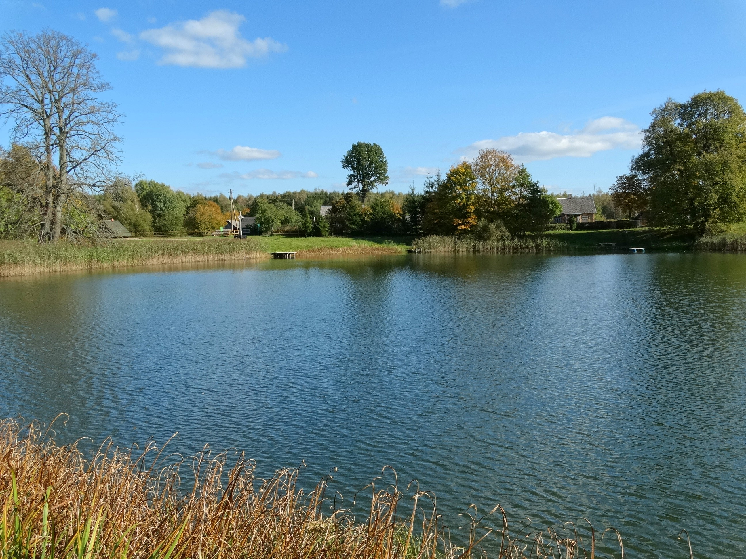 Kaukinė, Kaišiadorys district, Lithuania